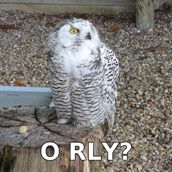 "O frly?", the (official) free software O RLY. Note, I personally don't need to include the revision history since technically there ISN'T a revision history, since this was the original copy.